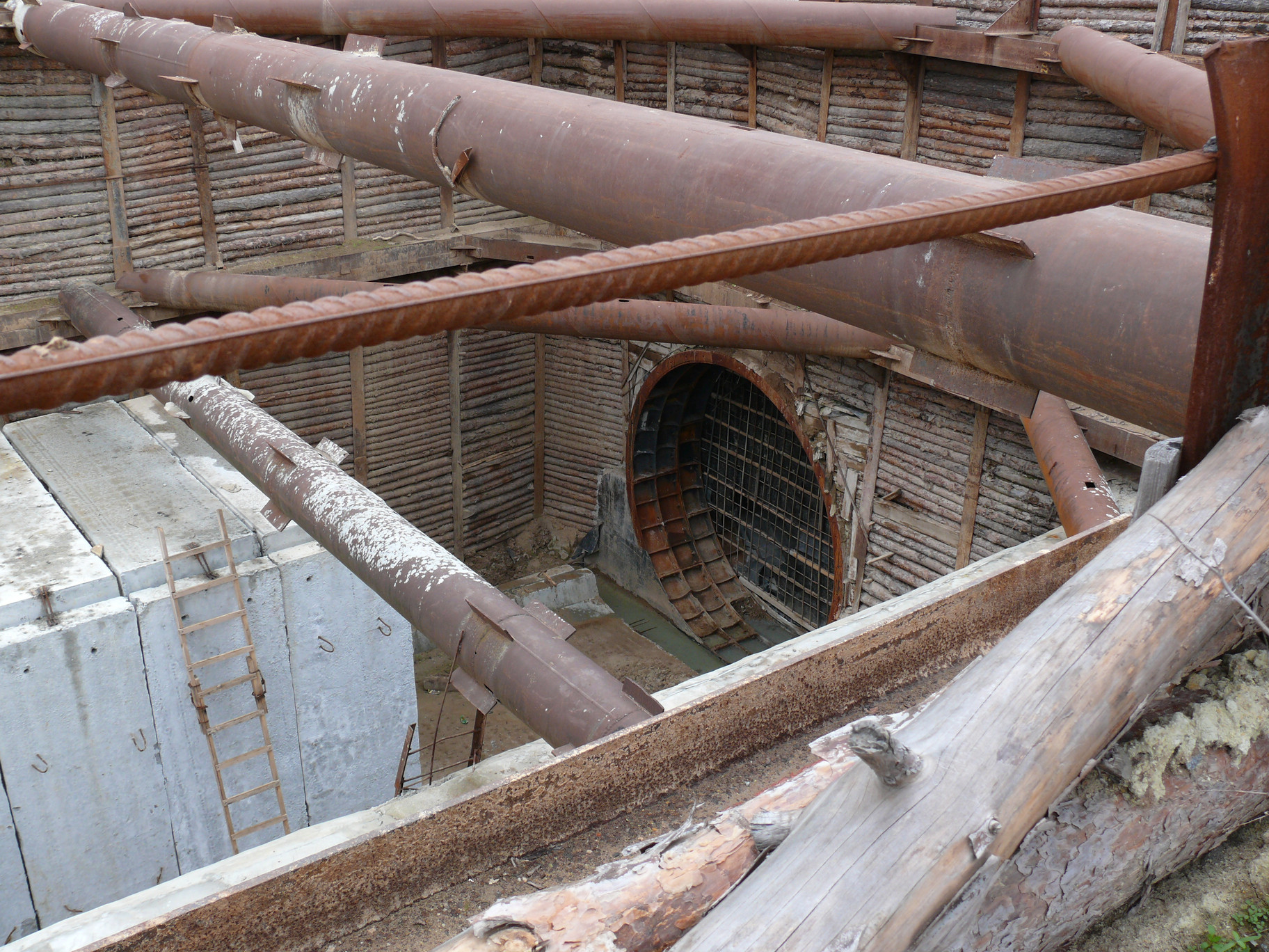 Kharkov metro tunnel construction